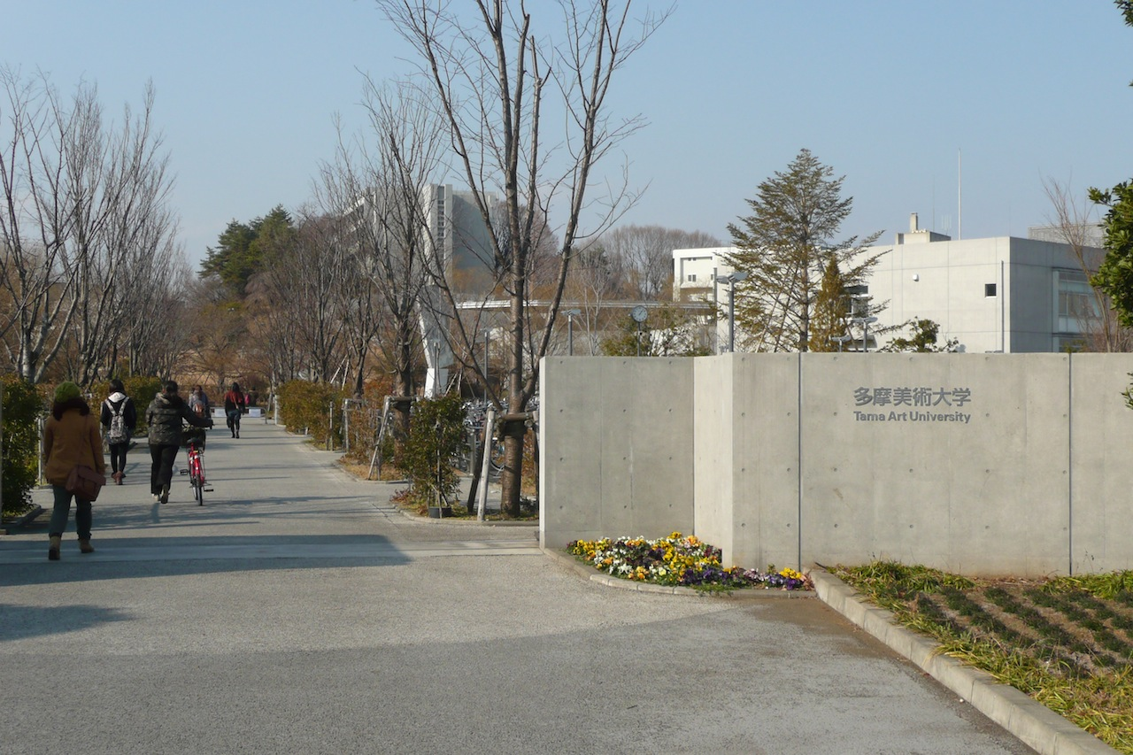 Tama Art University Tokyo / Hachioji- Campus / main entrance 2012